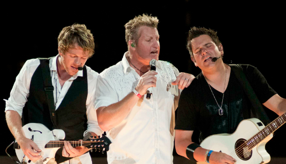 Rascal Flatts performing live in concert on their Thaw Out 2012 Tour